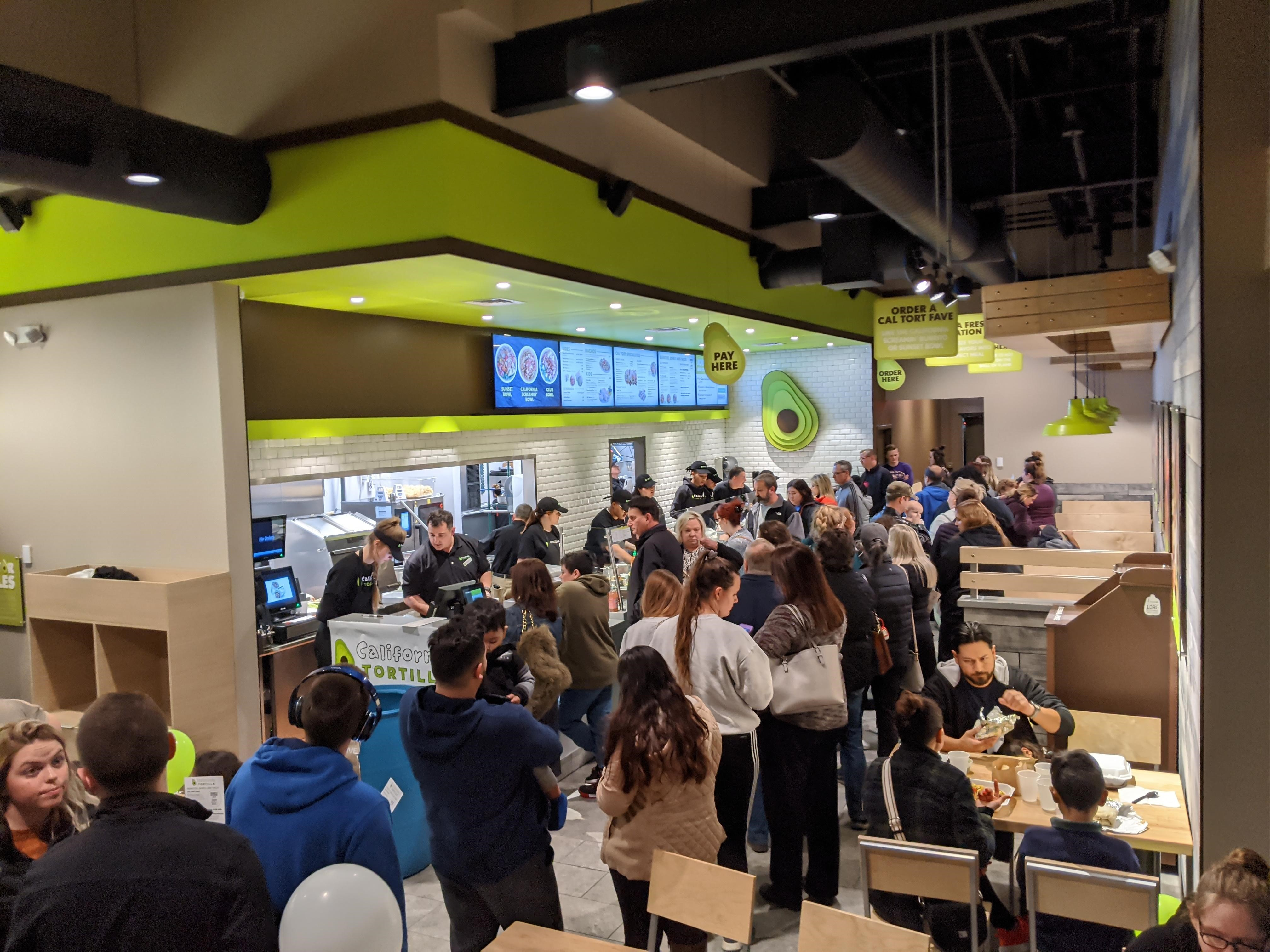 Grand Opening Day in Wichita